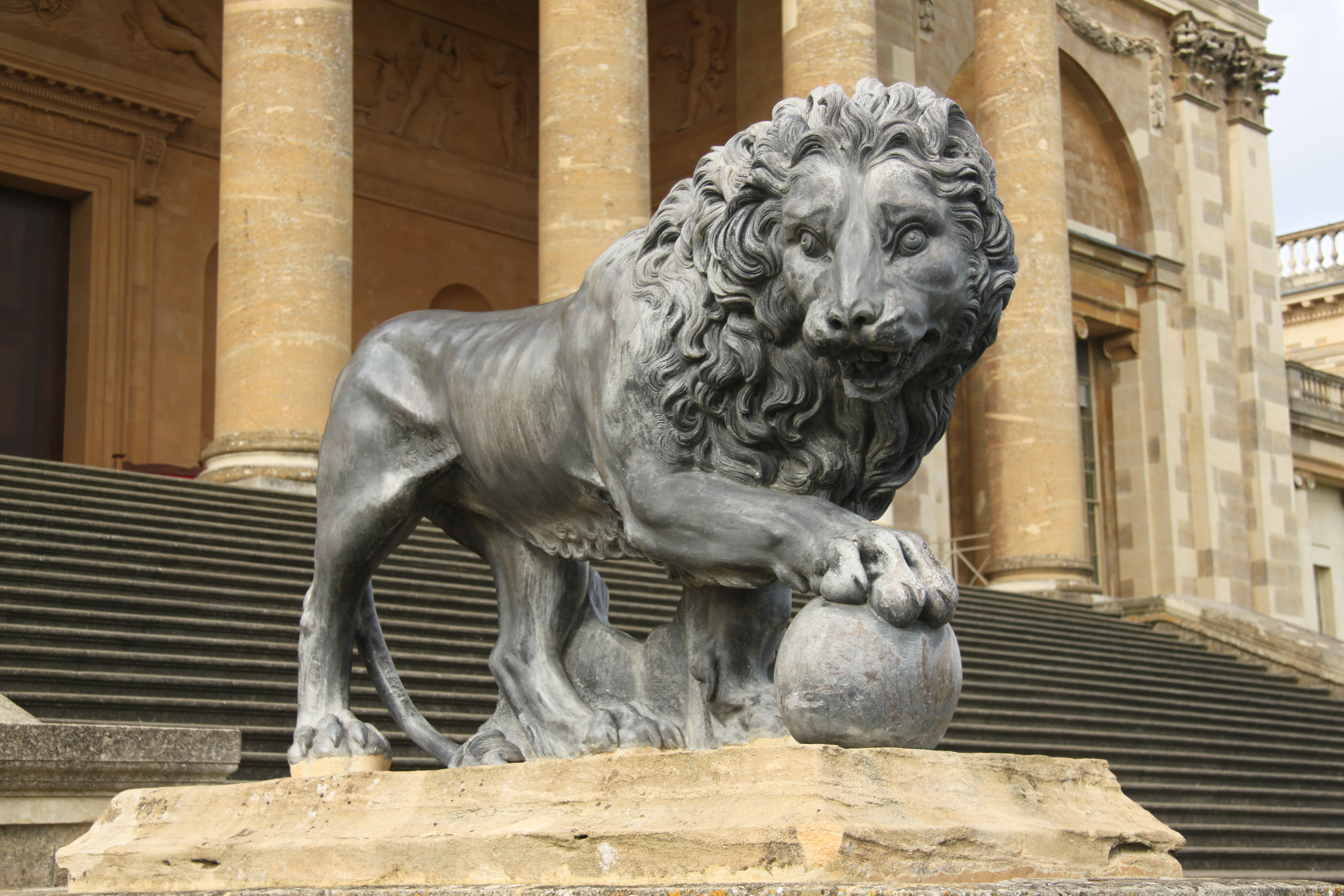 Stowe - The House - Lion sculpture